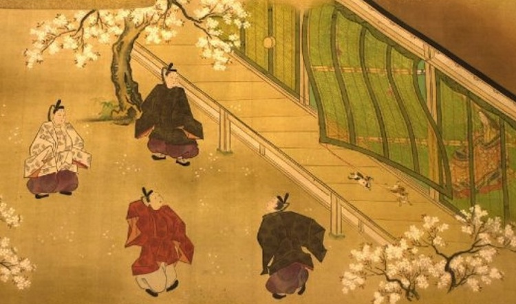 Silk handscroll from Chapter 34 of Murasaki Shikibu's The Tale of Genji depicting men playing kickball, cats escaping and as a woman sitting behind a screen watches